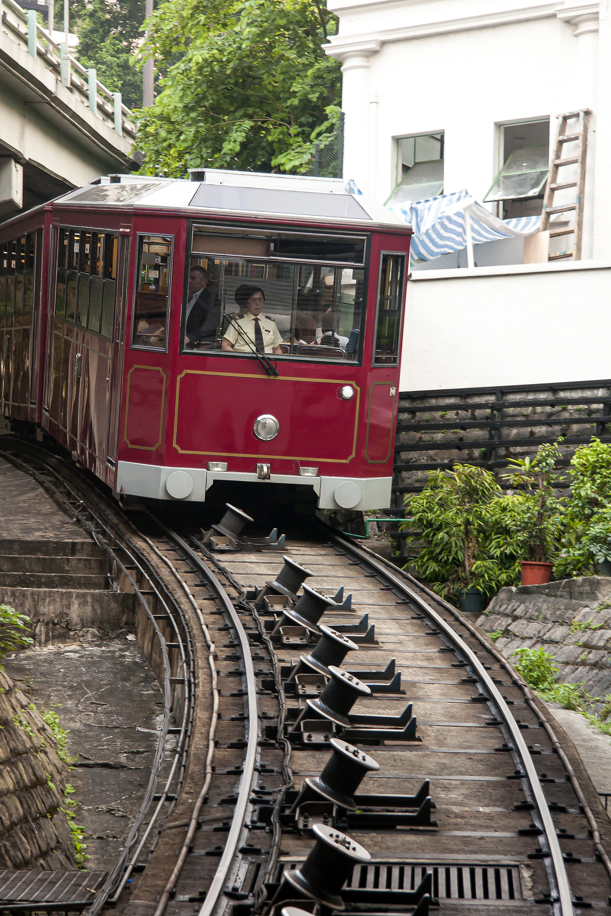 The tram for Victoria Peak in Hong Kong arriving at the lower station.